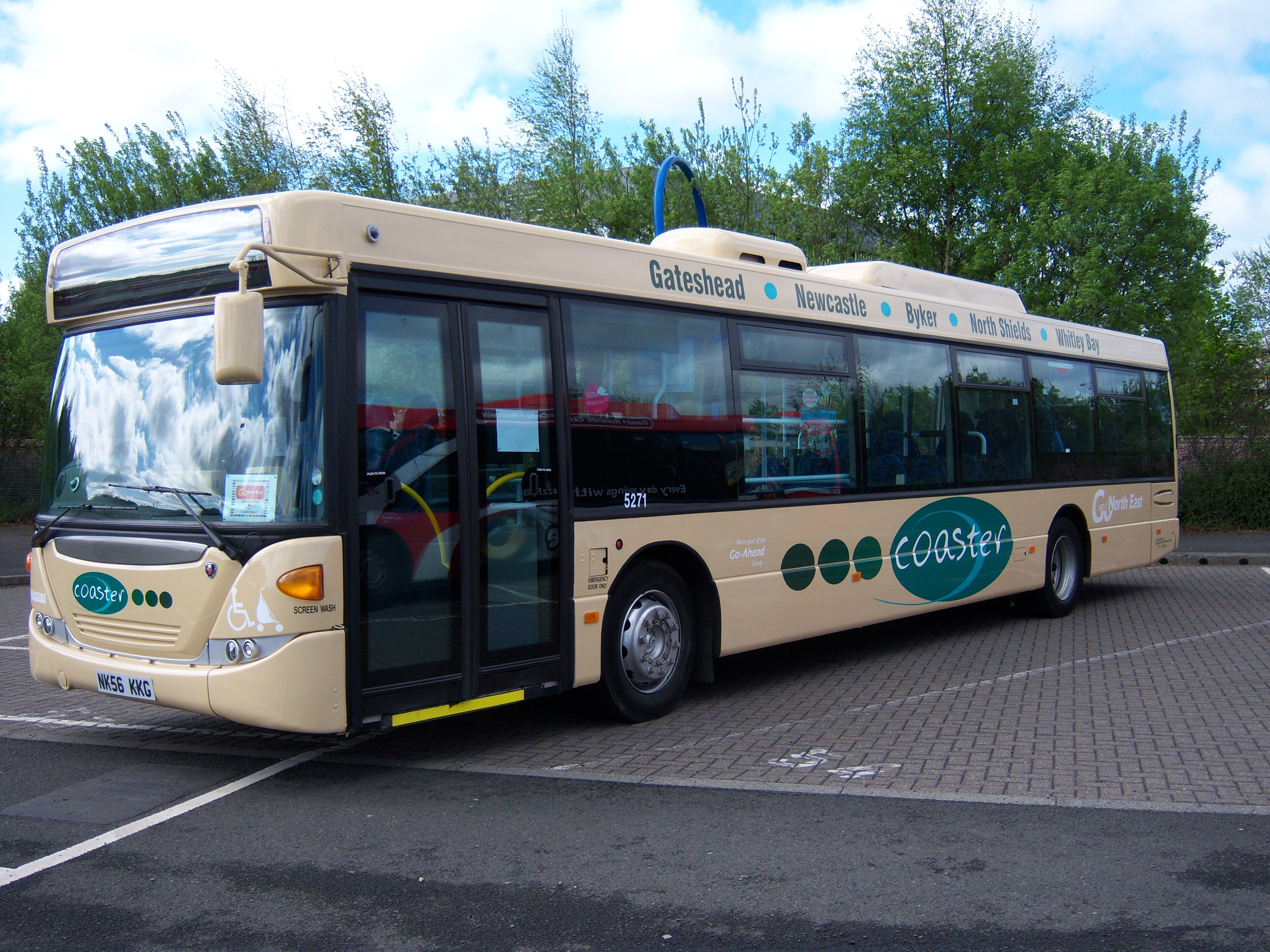 Go North East 5271 (NK56 KKG), a Scania CN230UB OmniCity, at the 2009 Metrocentre bus rally. It is seen after it was repainted out of the pink Angel livery into the cream Coaster livery, after the swap of vehicle types (the Dennis Tridents on the Coaster were moved onto The Angel).